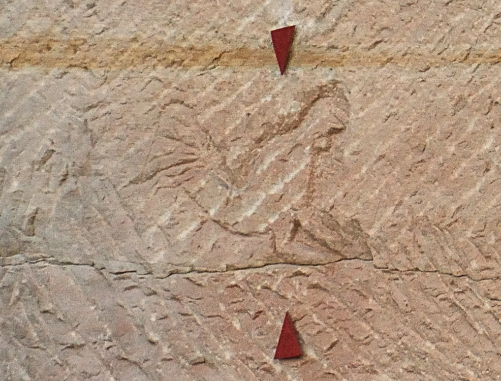 Signifer of the 22nd Roman Legion Primigenia in a quarry near Bad Dürkheim, Germany